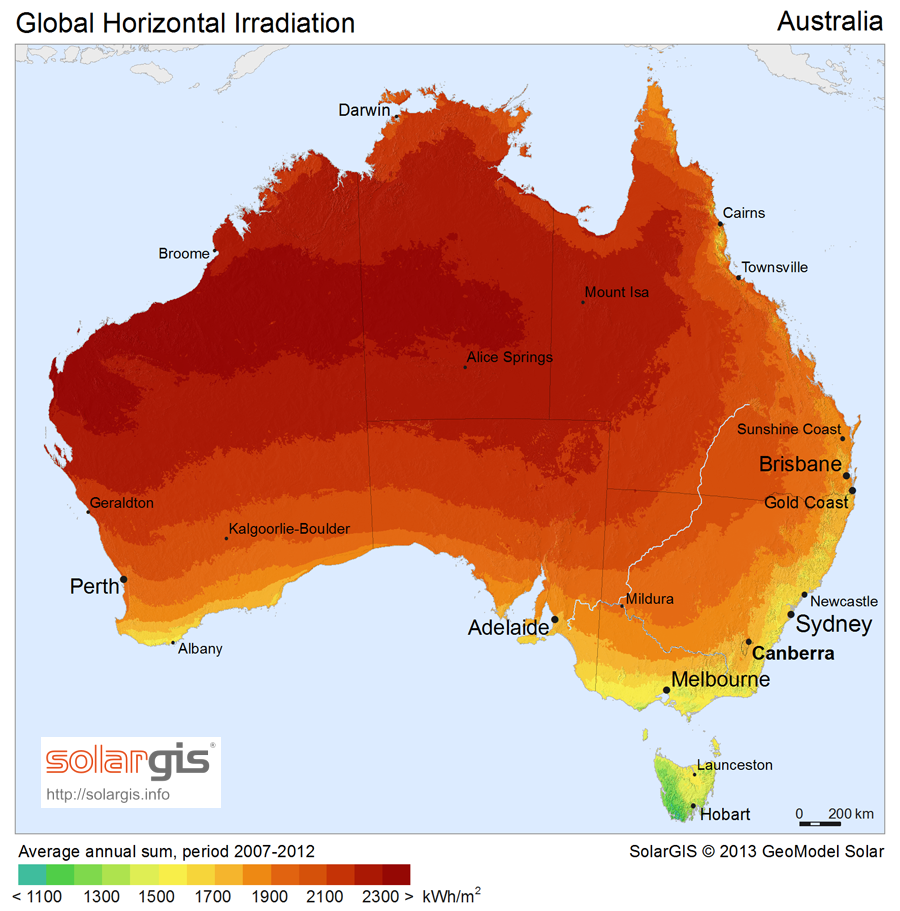 Solar Radiation Map: Global Horizontal Irradiation Map of Australia, SolarGIS 2013